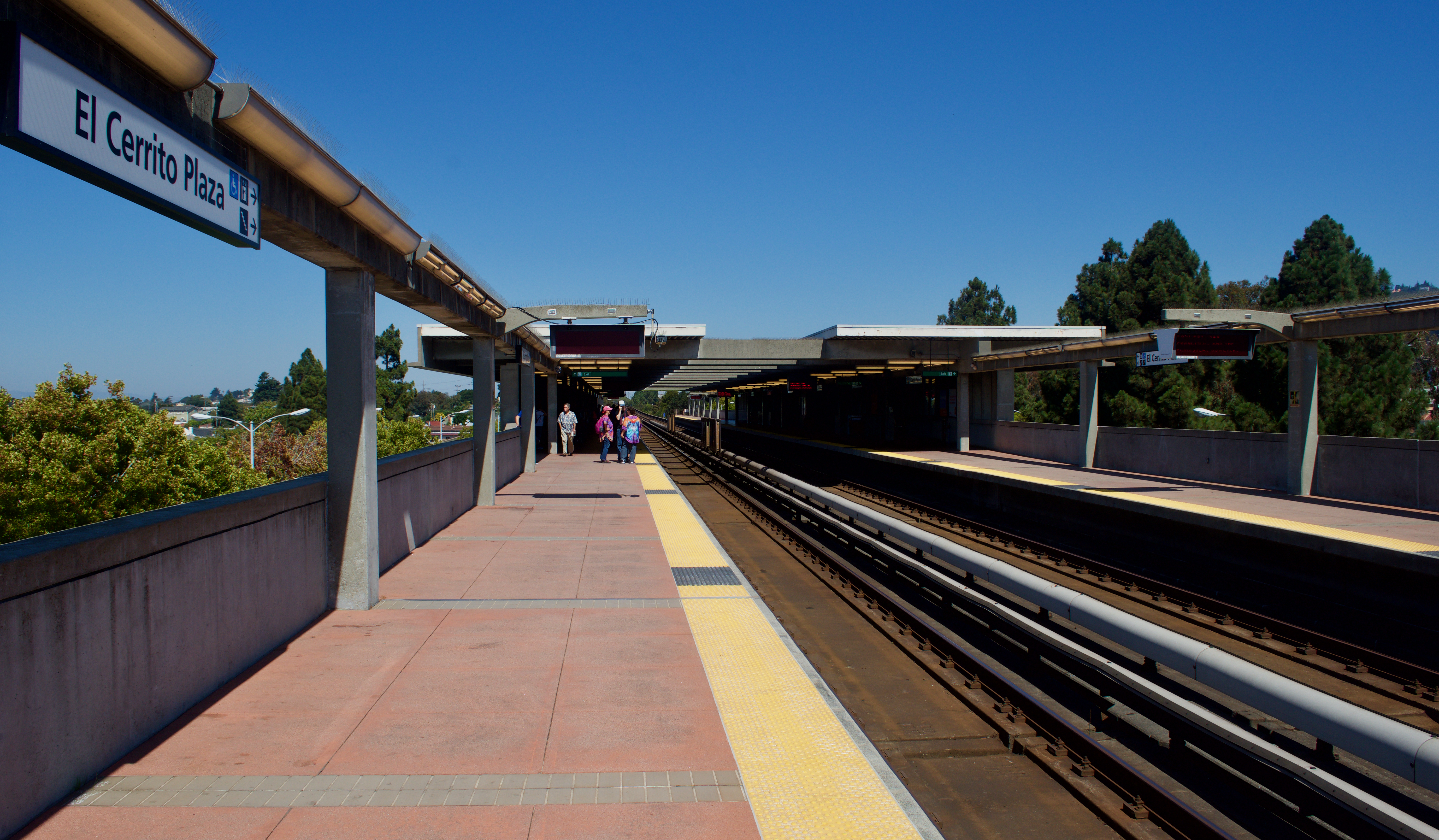 The southbound platform of the El Cerrito Plaza BART station looking north, 26 August 2017.